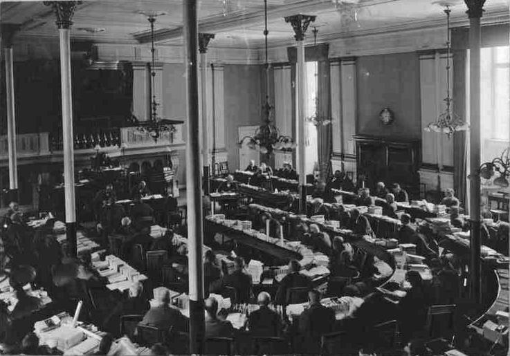 The temporary assembly hall used by Folketinget after the fire of Christiansborg Palace in 1884 until 1928.